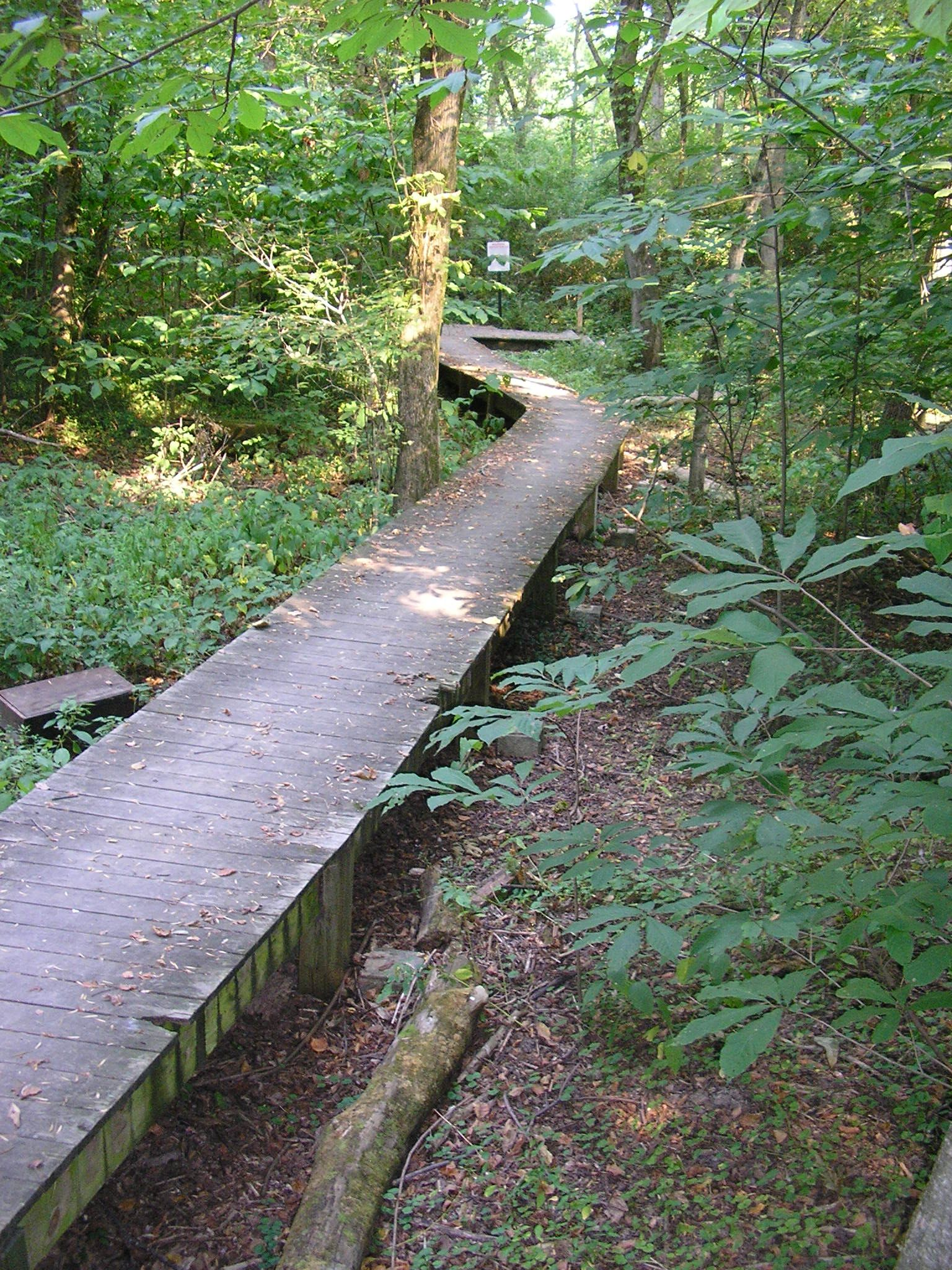 In Beargrass Creek State Nature Preserve, Louisville United States. This footbridge carries hikers over seasonal wetlands.